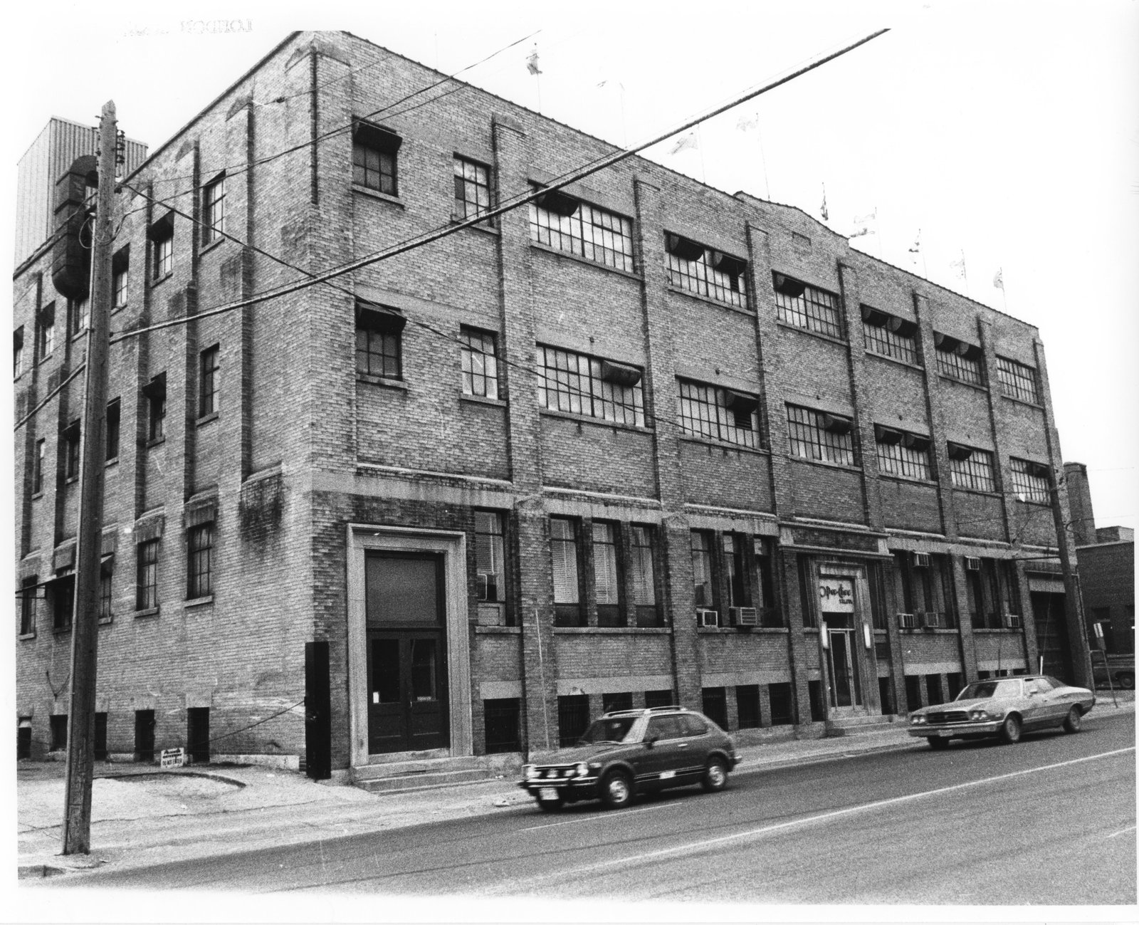 A black and white photograph of the O-Pee-Chee manufacturing facility. This O-Pee-Chee manufacturing facility at 430 Adelaide Street was built in 1928 and was in use until 1989 when a new plant was built in London East. This building on Adelaide Street has been turned into apartments.